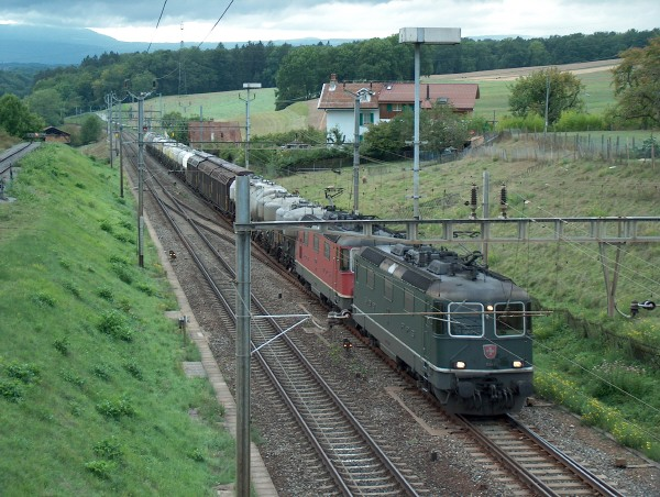 by Alexandre Frauenknecht, September 2005, in Bussigny VD (Switzerland)